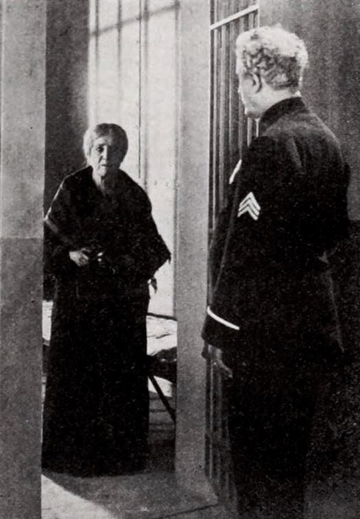 Still from the American drama film The Song of Life (1922) with Georgia Woodthorpe, on page 67 of the January 28, 1922 Exhibitors Herald.